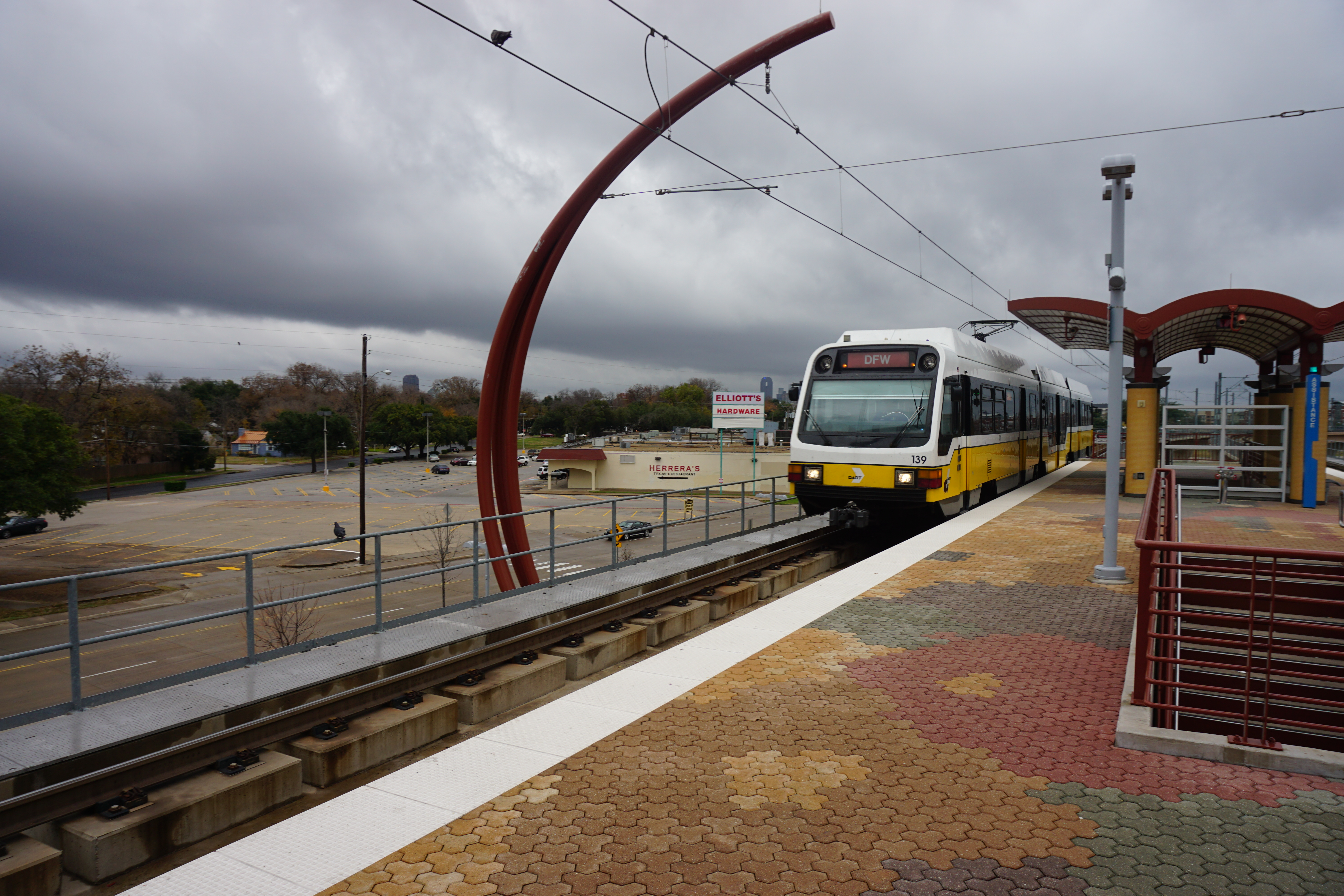 A DART Light Rail Orange Line train at Inwood/Love Field Station in Dallas, Texas (United States).